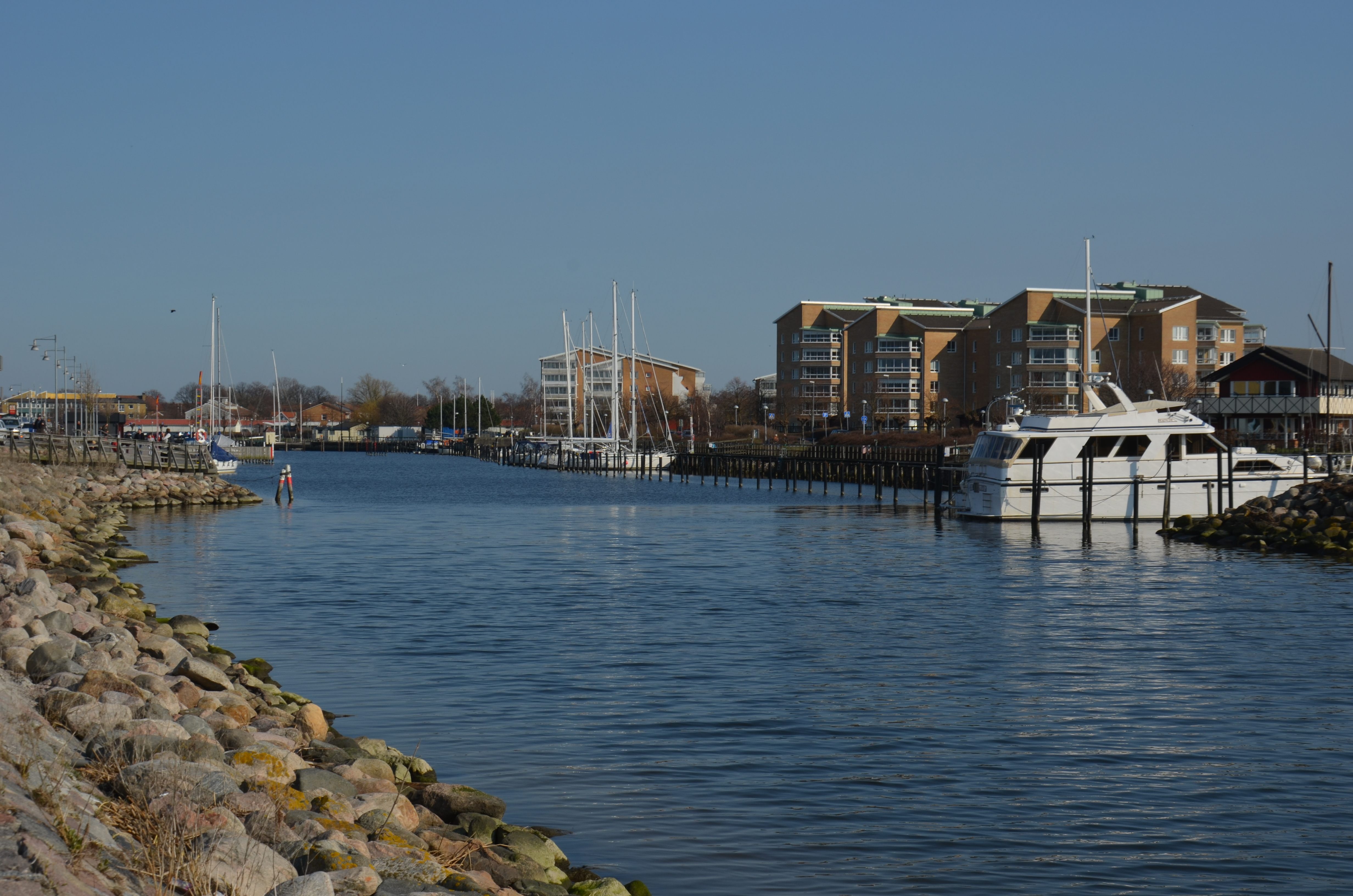 Höje å i Lomma vid utloppet i Öresund